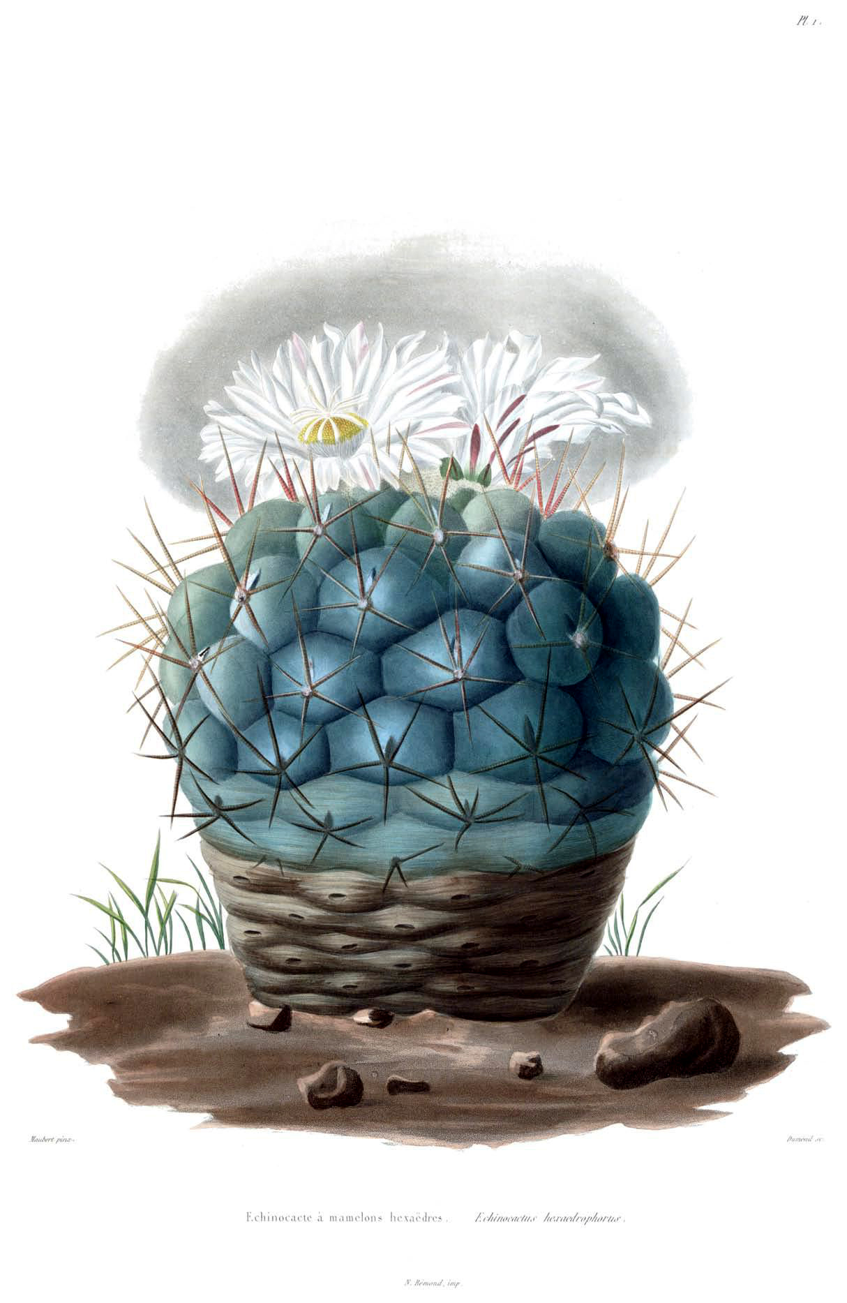 Plate from book